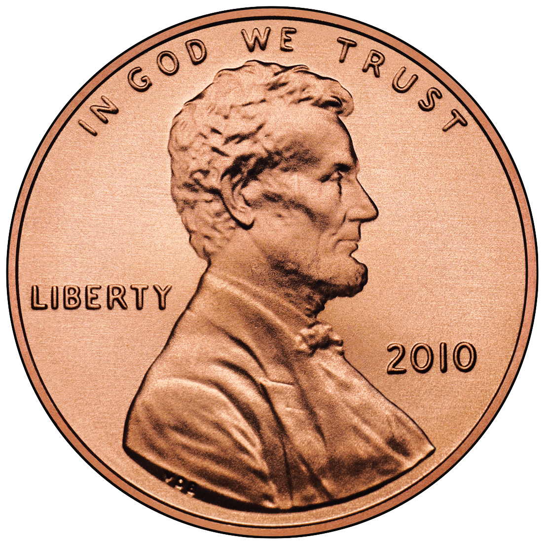 The obverse ("heads" side) of the cent after 2010. While this is the same design that's been used since 1909, the 2010 design has been modified using Brenner's models from 1909. The description from the Mint is as follows: Bears the likeness of President Lincoln.